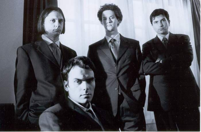 Left to right: Dejan Utvar, Zoran Radovic, Vladislav Rac, Vladimir Markovic. Photography by Vesna Pavlovic